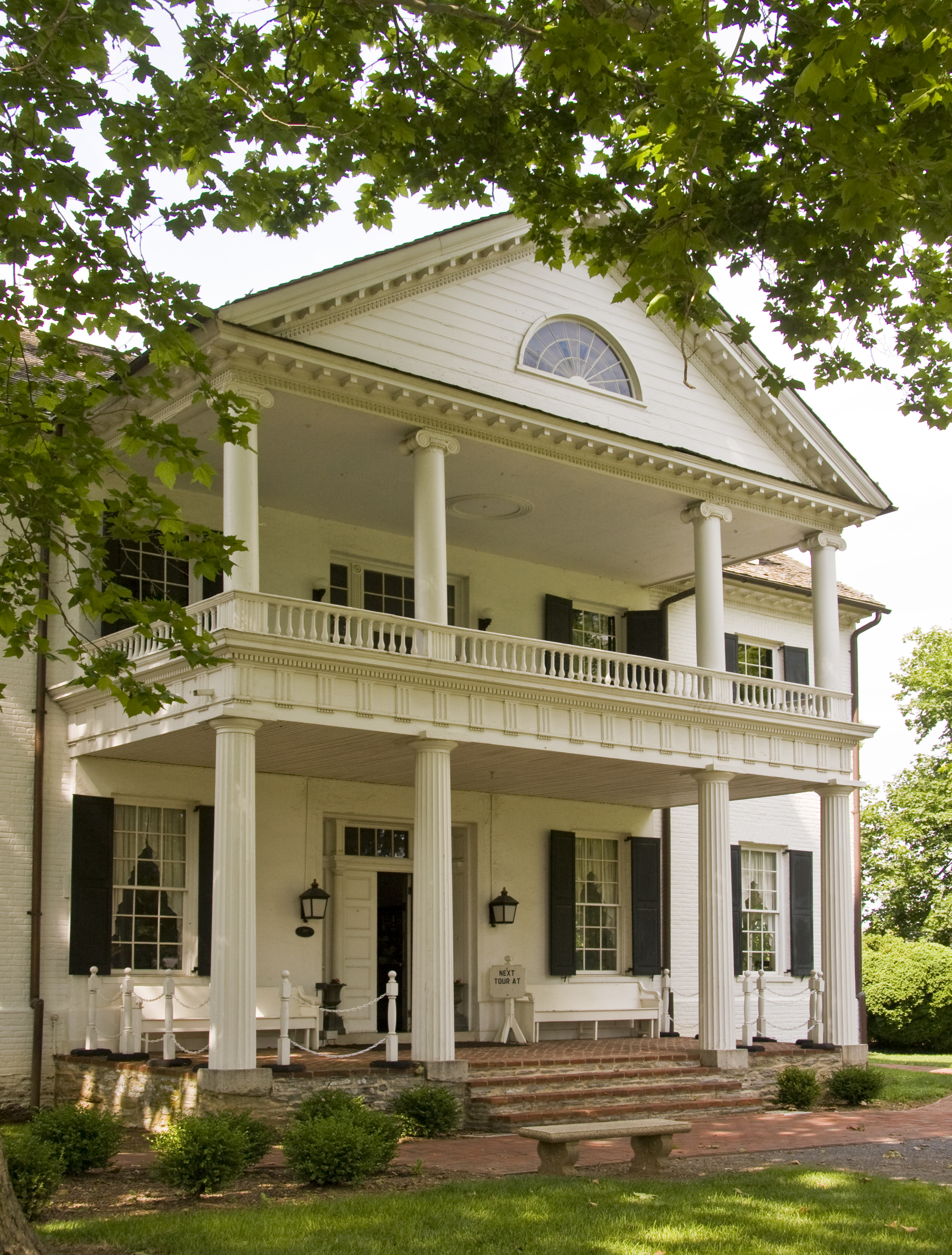 Rose Hill Manor, Frederick, Maryland, USA